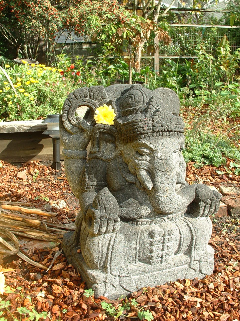 Ganesh: Ganesha — the elephant-deity riding a mouse — has become one of the commonest mnemonics for anything associated with Hinduism. This not only suggests the importance of Ganesha, but also shows how popular and pervasive this deity is in the minds of the masses.